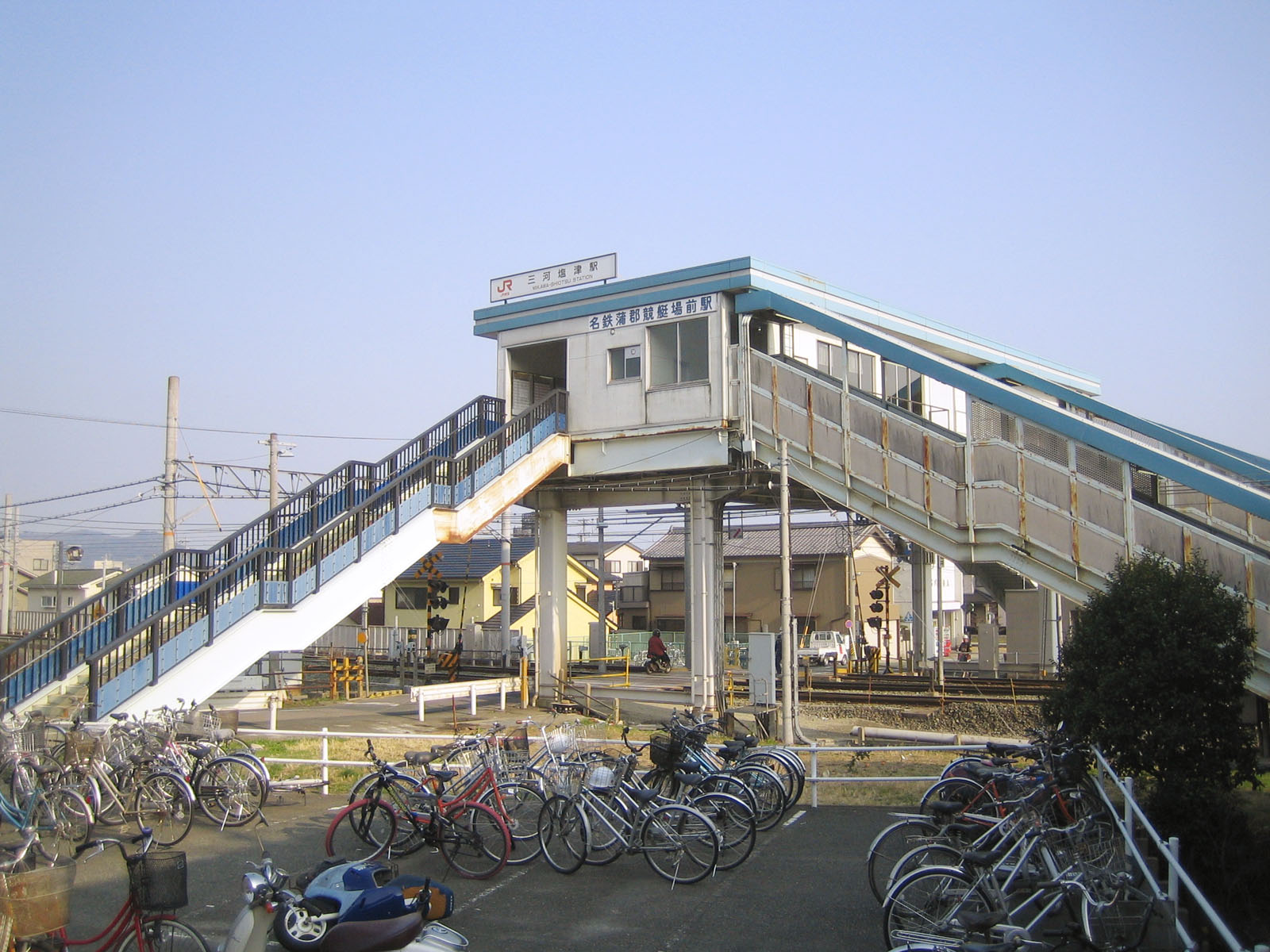 The north gate of Mikawa-Shiotsu Station (三河塩津駅), in Gamagori, Aichi, Japan